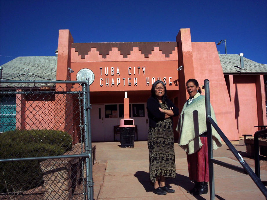 Kaibab employees at the Tuba City Chapter House on Navajo Nation to discuss Forest projects with Chapter Officials. Please give credit to: U.S. Forest Service, Southwestern Region, Kaibab National Forest.